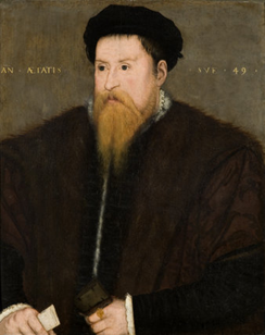 "An(no) Aetatis Suae 49" ("in the 49th year of his age", i.e. 1564)